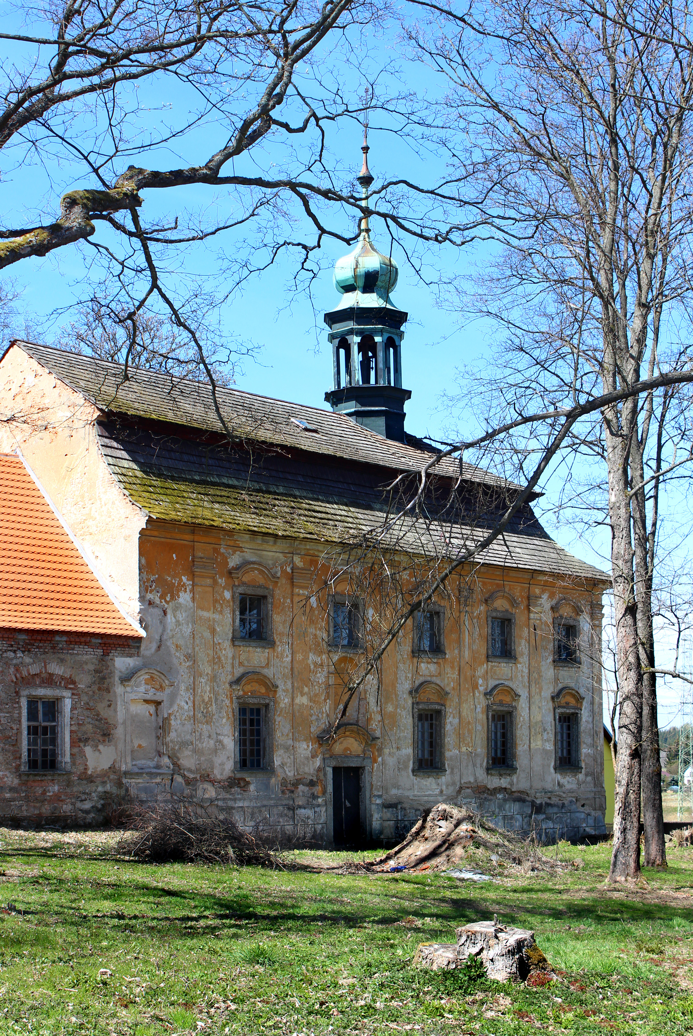 Javorná Castle in Javorná, part of Bochov, Czech Republic